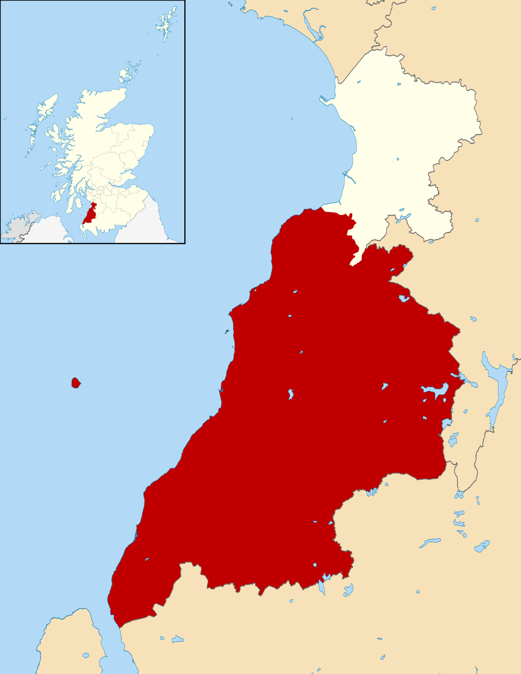 A modern map of Carrick within South Ayrshire